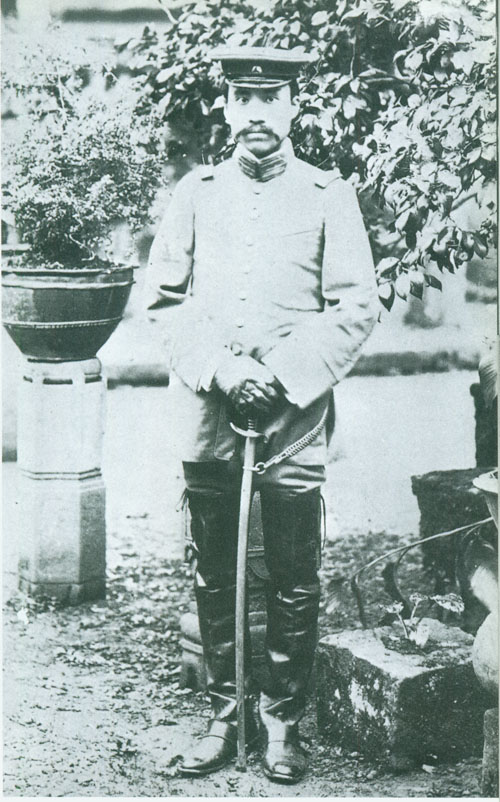 1916 Zhu De. 1916年朱德